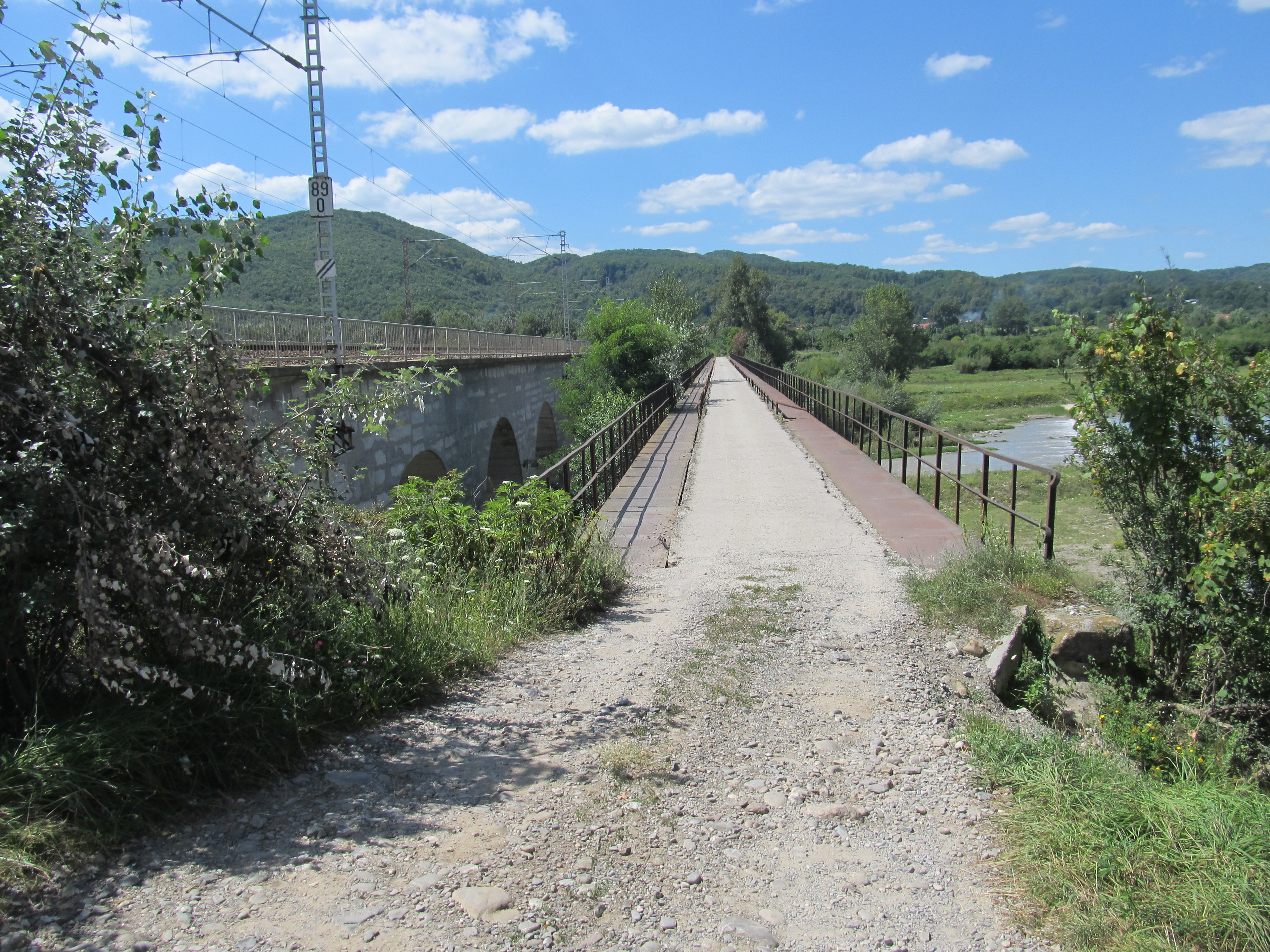 Railway bridge at km 89+140 on the CFR main line 300, near the village of Bobolia in Prahova County, Romania. The bridge crosses over the Prahova River.